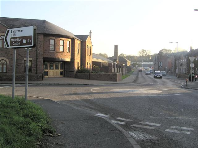 Coalisland, looking from the north of the town